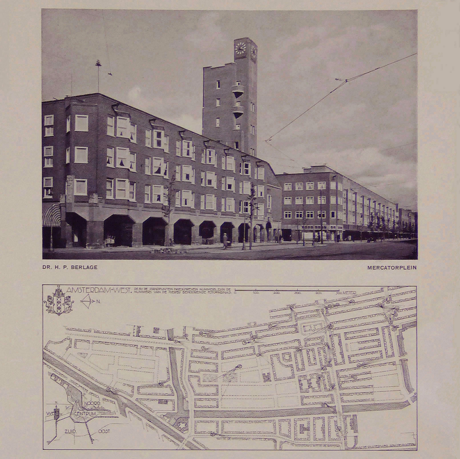 Architecture and art magazine WENDINGEN 1927-6/7, page 5. Theme "Plan West Amsterdam", Mercatorplein, architecture by Hendrik Petrus Berlage. Catawiki